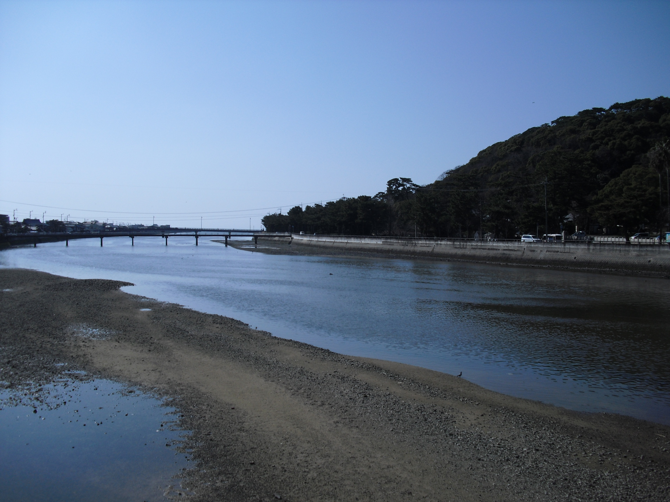 Saitagawa river